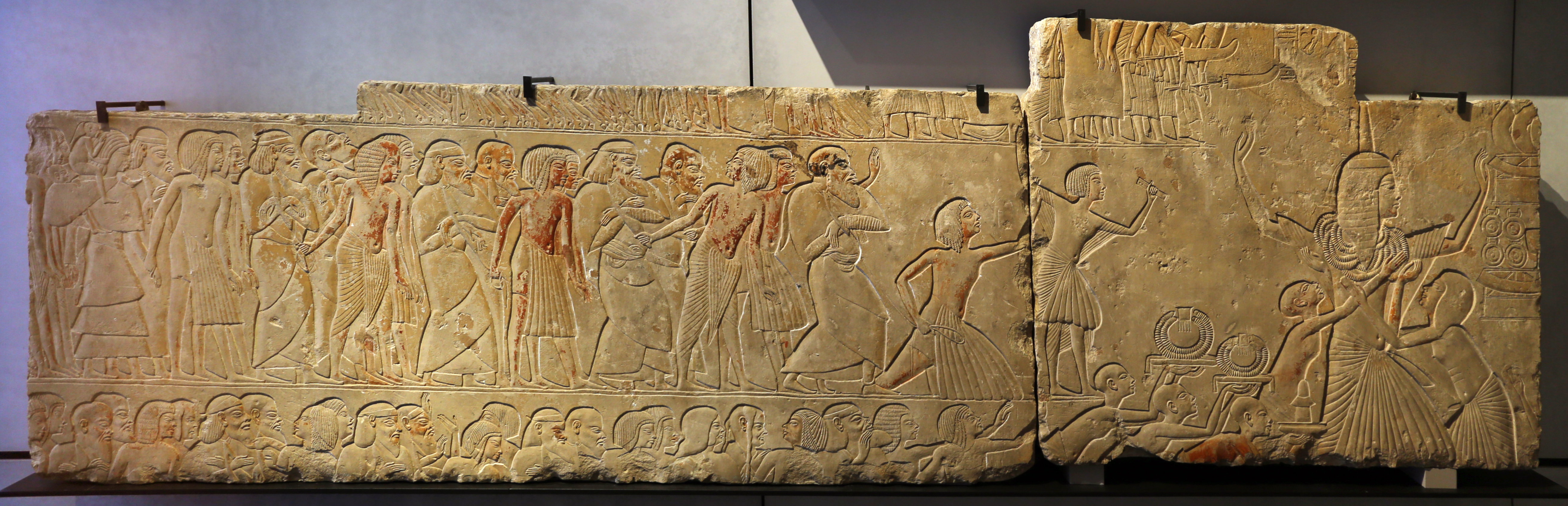 Egyptian antiquities in the Rijksmuseum van Oudheden